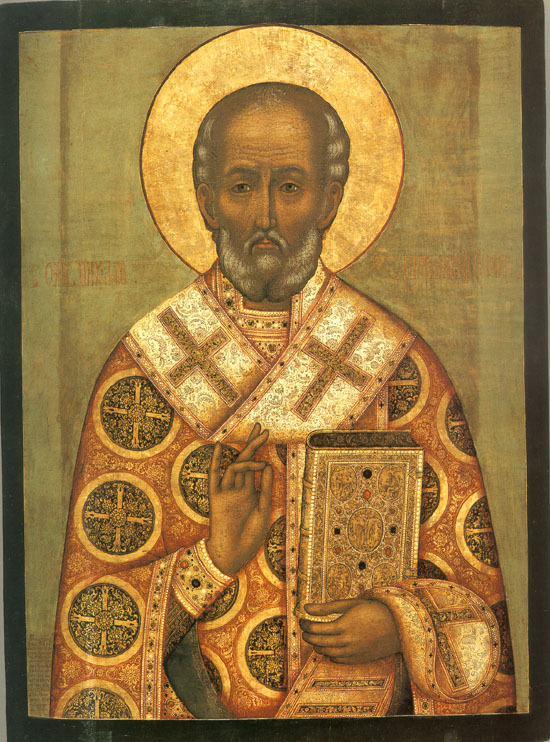 Icon of St. Nicholas. Commissioned by Bogdan Khitrovo, Russian boyar and art collector.